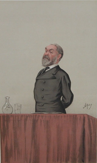 Caricature of Frederic Harrison. Caption read "An Apostle of Positivism".